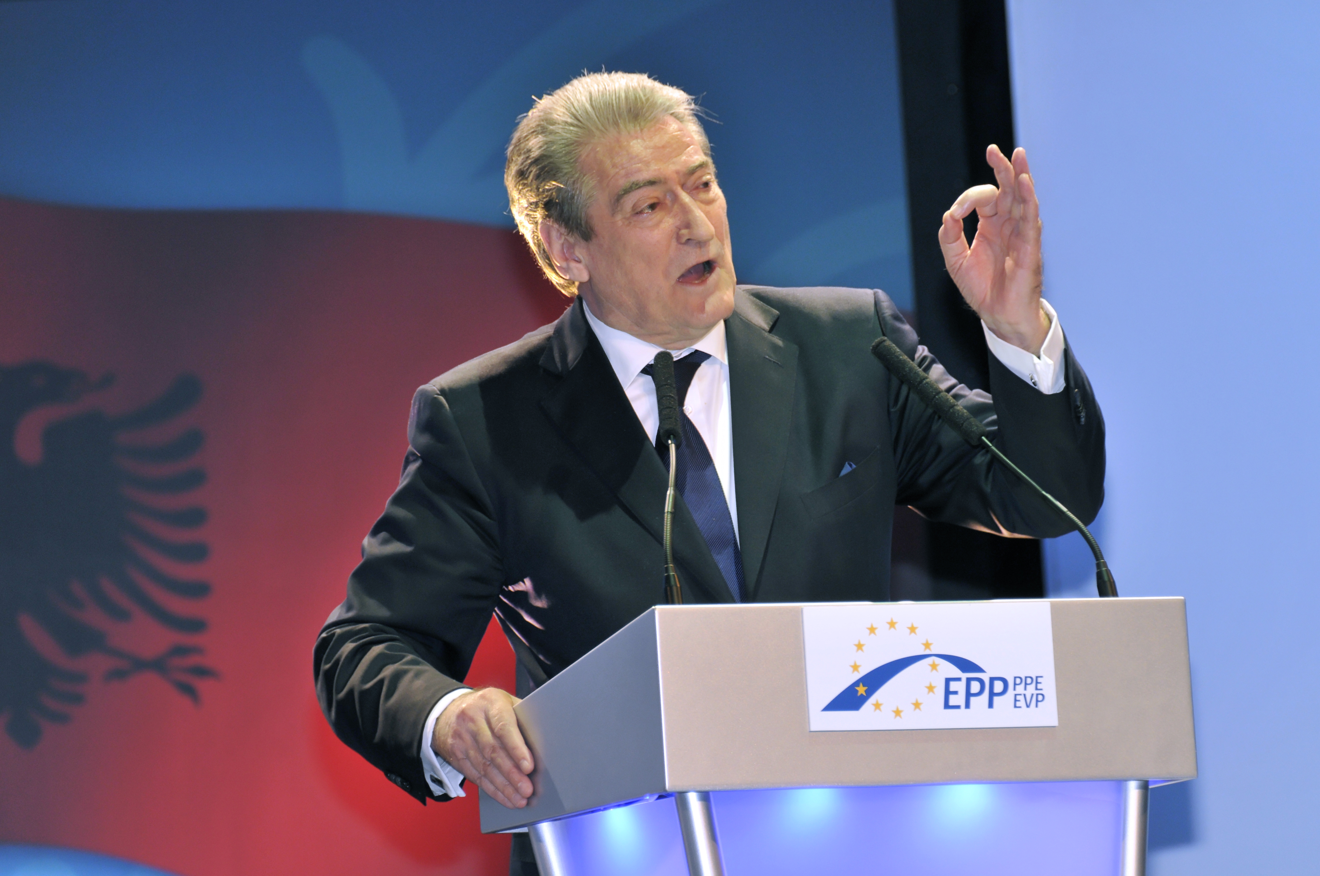 EPP Congress Warsaw